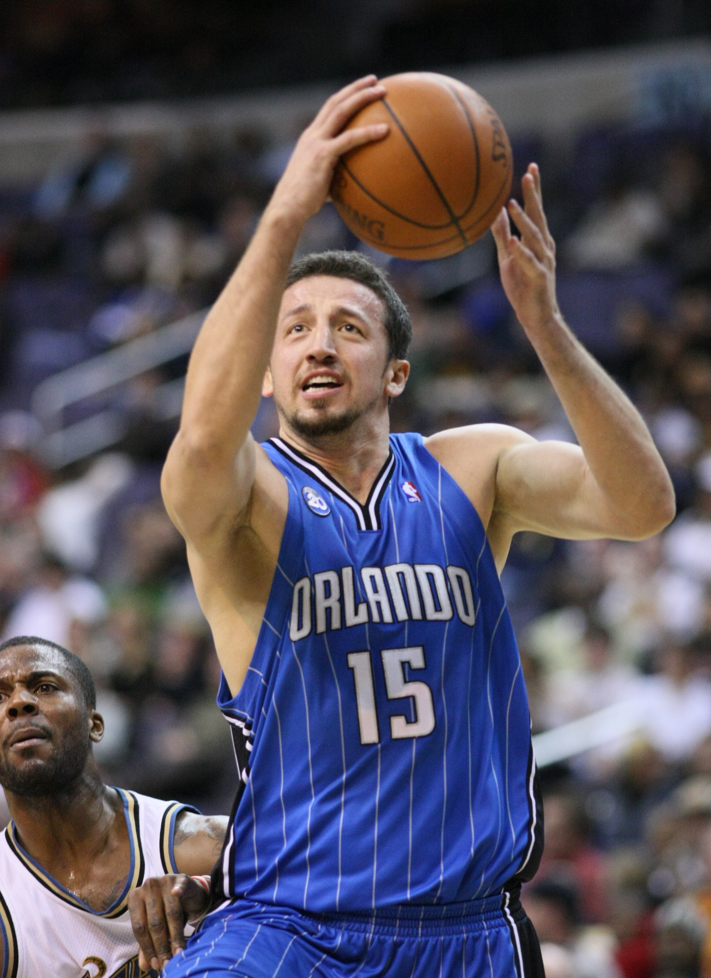 Hedo Turkoglu jump to Layup, game on 11/27/08